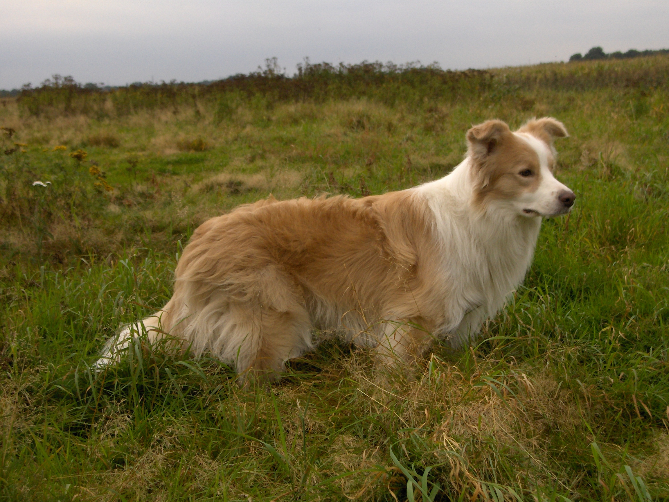 Australian red and white - Red Rock